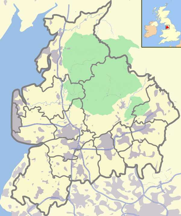 Map showing the Forest of Bowland and the district boundaries of Lancashire in England.